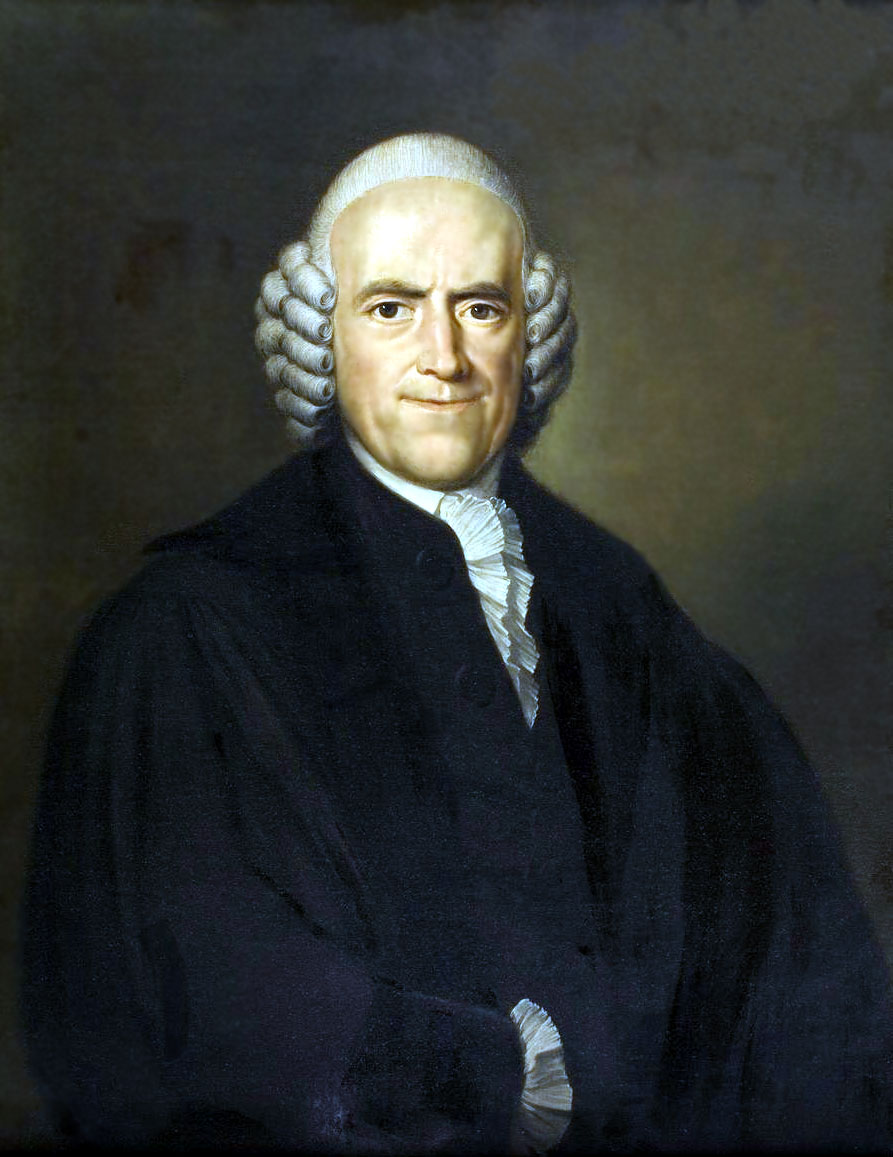 Nicolaus Georgius Oosterdijk (1740-1817) Dutch physicians, chemists and botanists